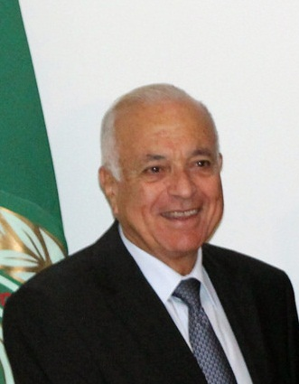 Arab League Secretary-General Nabil al-Araby, in Cairo, Egypt, September 13, 2014. [State Department photo/ Public Domain]